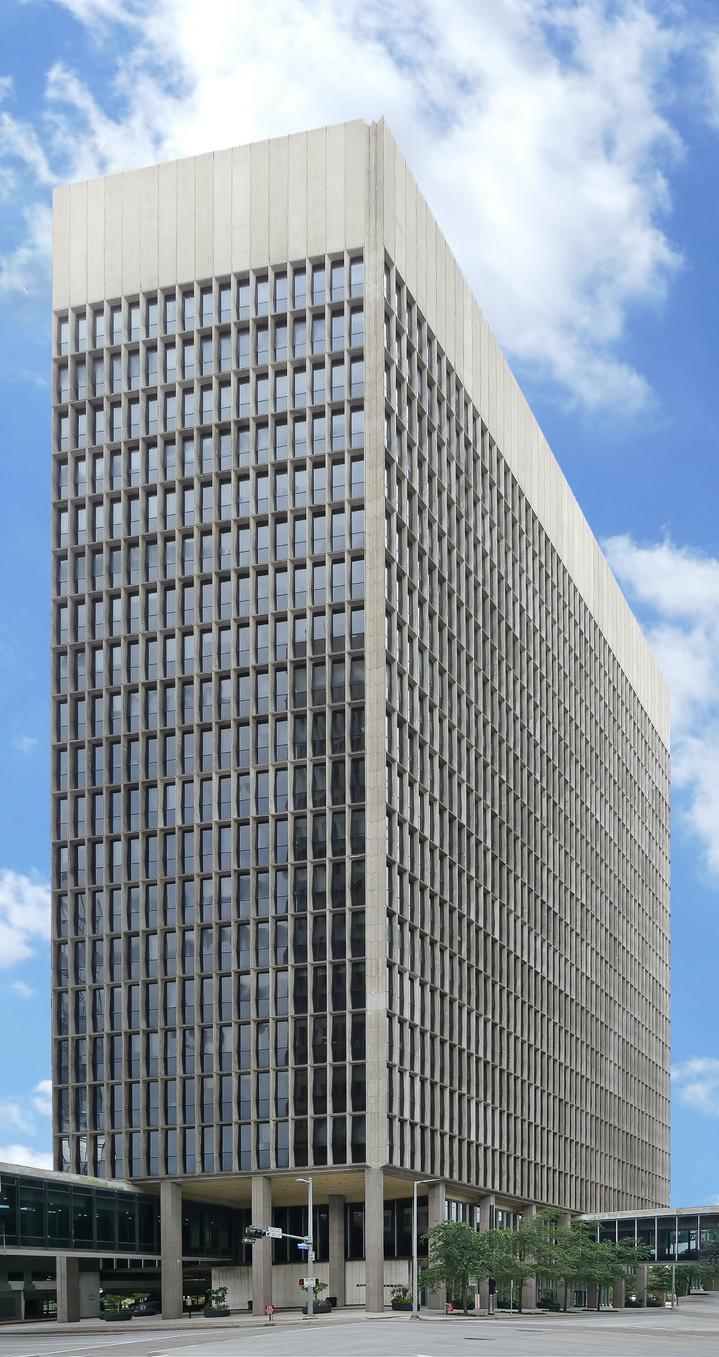 500 Jefferson was the first building in Cullen Center to be developed. 500 Jefferson, which opened in 1962, has offices of KBR. In addition, at one time Suite 1600 had the Houston Fire Department Records Department and the law firm Lapin & Landa LLP Cullen Center features pedestrian skybridges, barber shop/hair salon, pizza shop, and full service Post Office. There are 2 floors below grade and storage space is available. Situated on eight city blocks, 14 acres, in downtown Houston, bounded by Calhoun, Brazos, Bell, and Milam streets. The property also features The Whitehall Hotel, with 325 rooms. There is direct auto access from metropolitan and suburban areas by urban thoroughfares and freeway systems. Pedestrians can access Cullen Center buildings from the concourse level skywalks and the downtown tunnel system. Other amenities: banking, card-key access, conferencing facility, convenience store, Energy Star labeled, on-site management, restaurant, security system